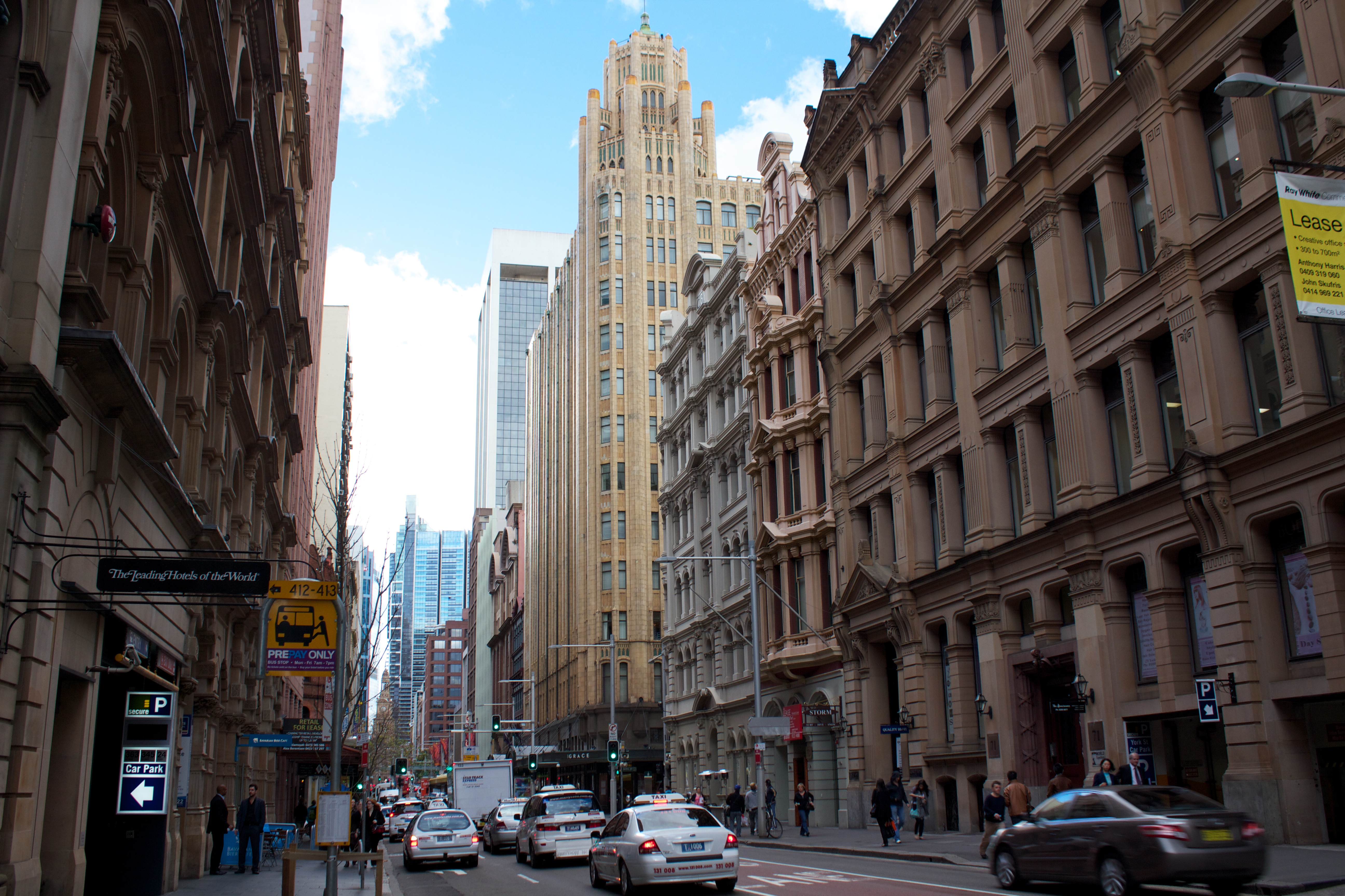 York Street, Sydnet